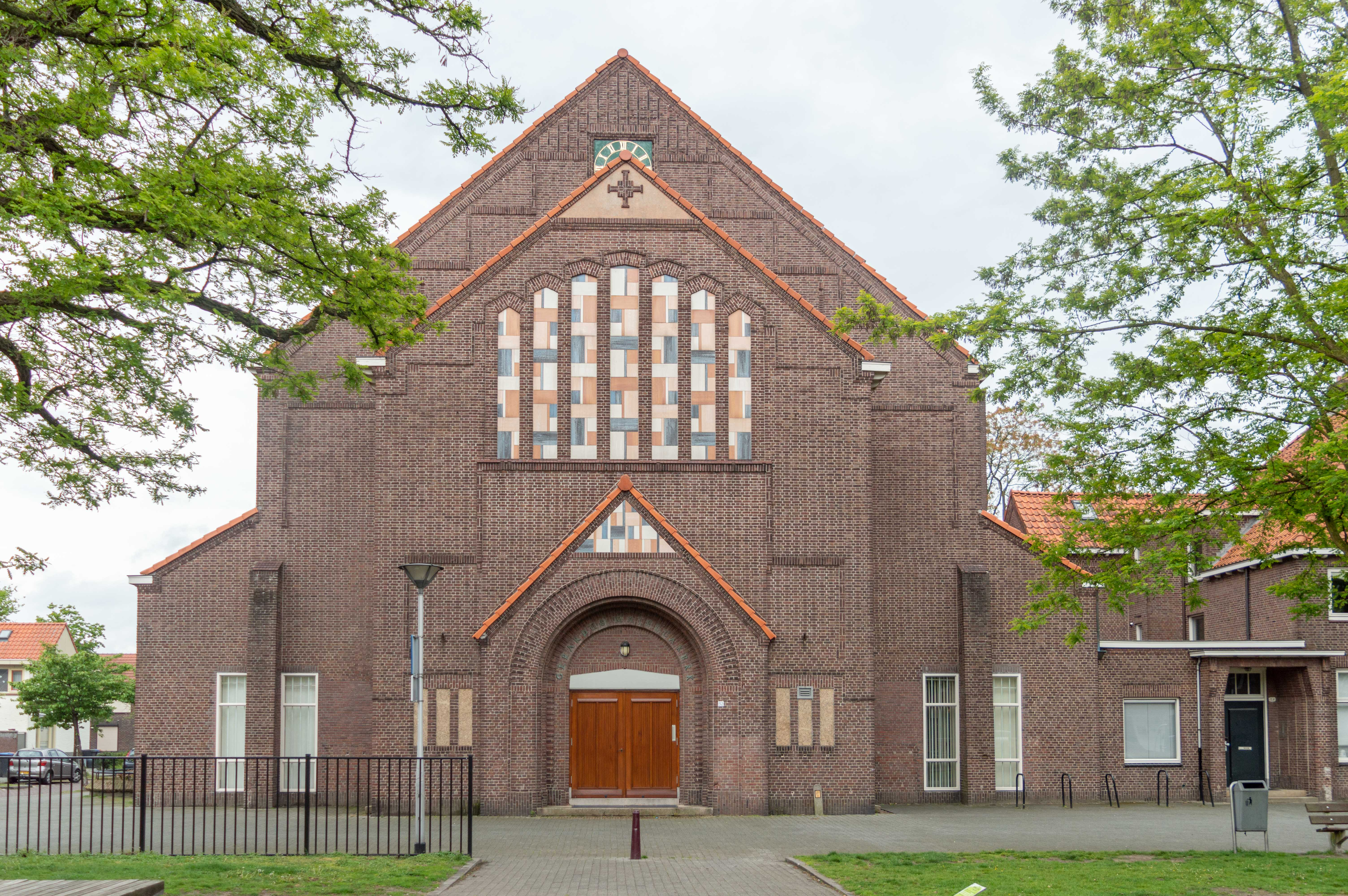 The front (west facade) of the Gerardus Majellakerk in Tilburg.